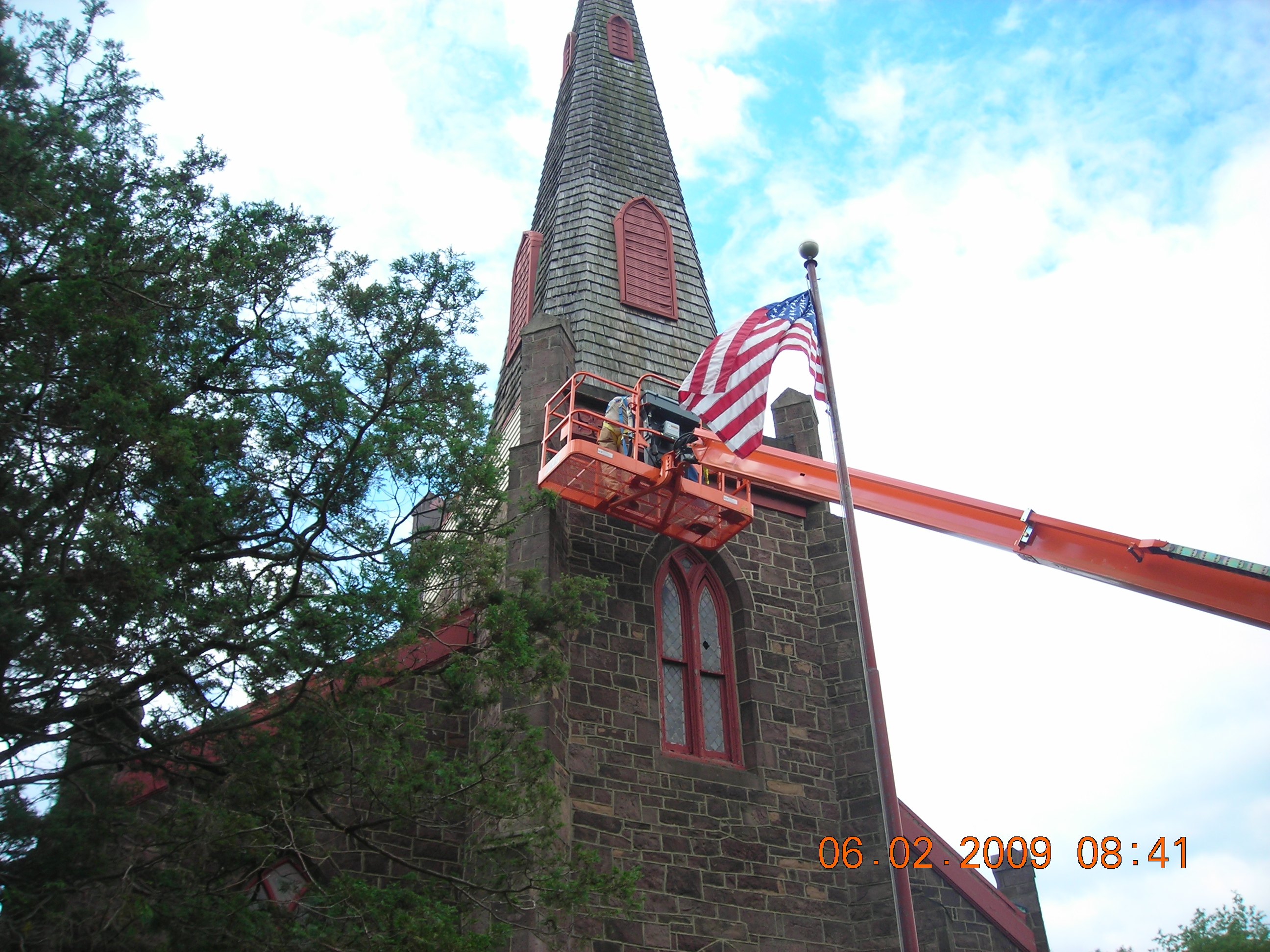 Steeple Work at St. Stephen't in Beverly, NJ